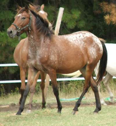 Spanish Jennet Roan Mare